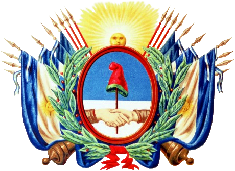 First coat of the "State of Buenos Ayres", a secessionist republic resulting from the overthrow of the Argentine Confederation government in the Province of Buenos Aires on September 11, 1852. This state was never recognised neither by the Confederation nor by other countries.